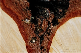 Cross-section of wood, Poland, fot. Elżbieta Dzikowska